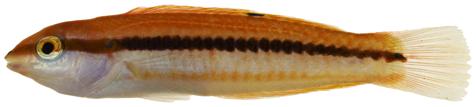 Halichoeres bivittatus (Bloch, 1791)—slippery dick, 37.9 mm SL, juvenile/initial color phase, showing the black spot in the dorsal fin and a somewhat unusual orangish anal fin. Photo by JT Williams.